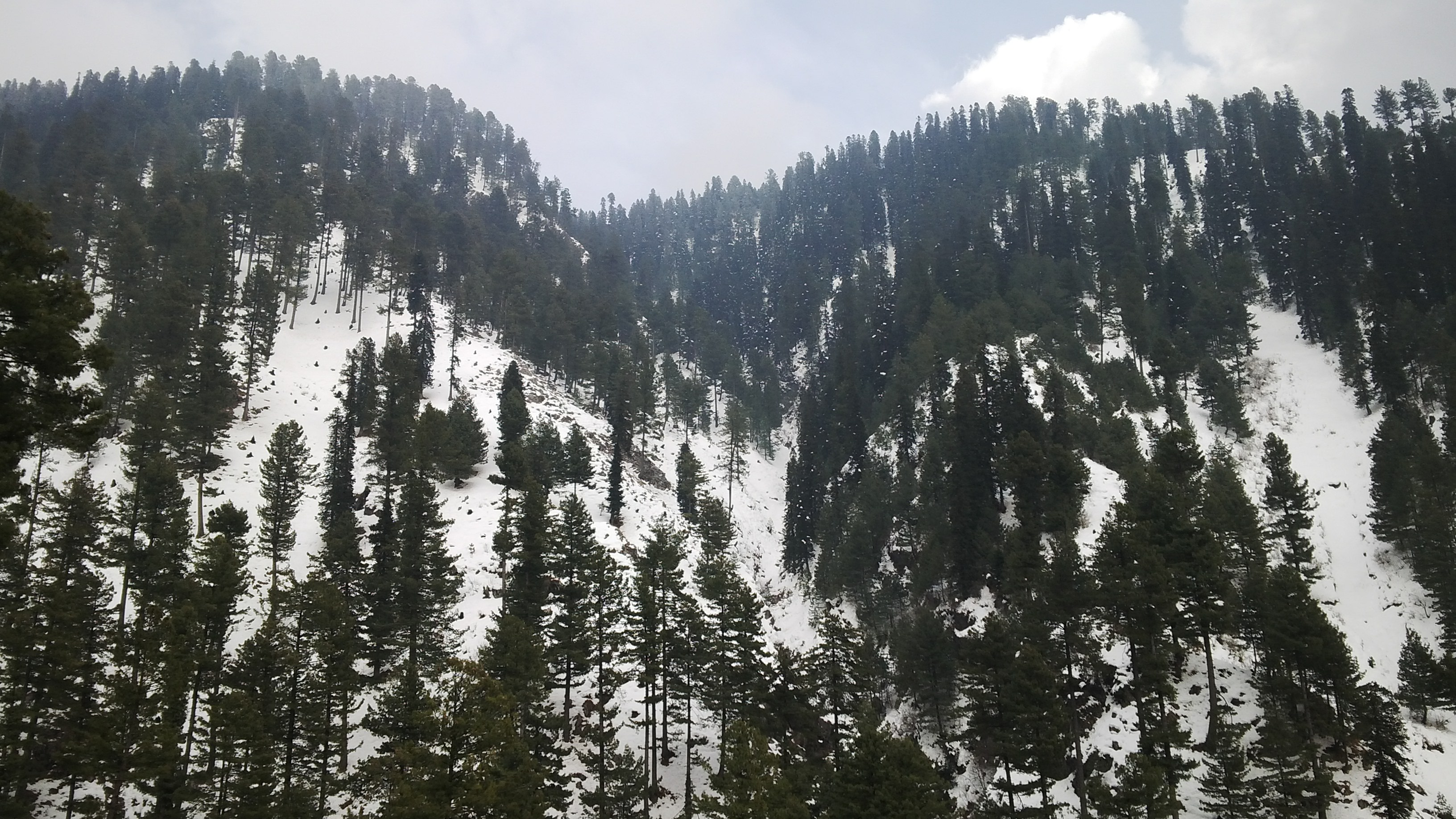 ABBOTTABAD, KPK